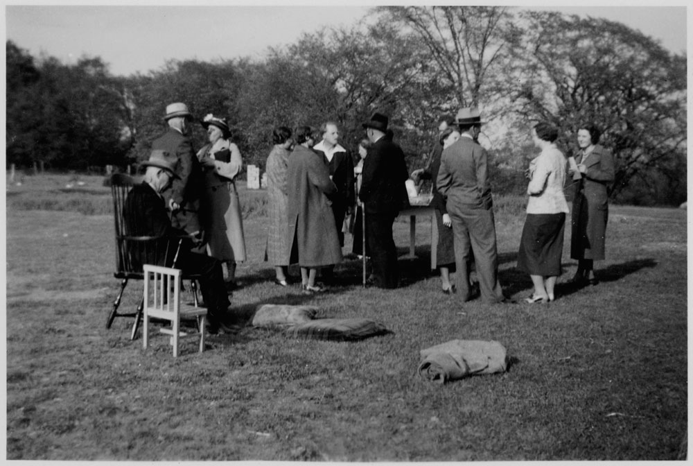 Wallace Havelock Robb giving a poetry reading, 1925.